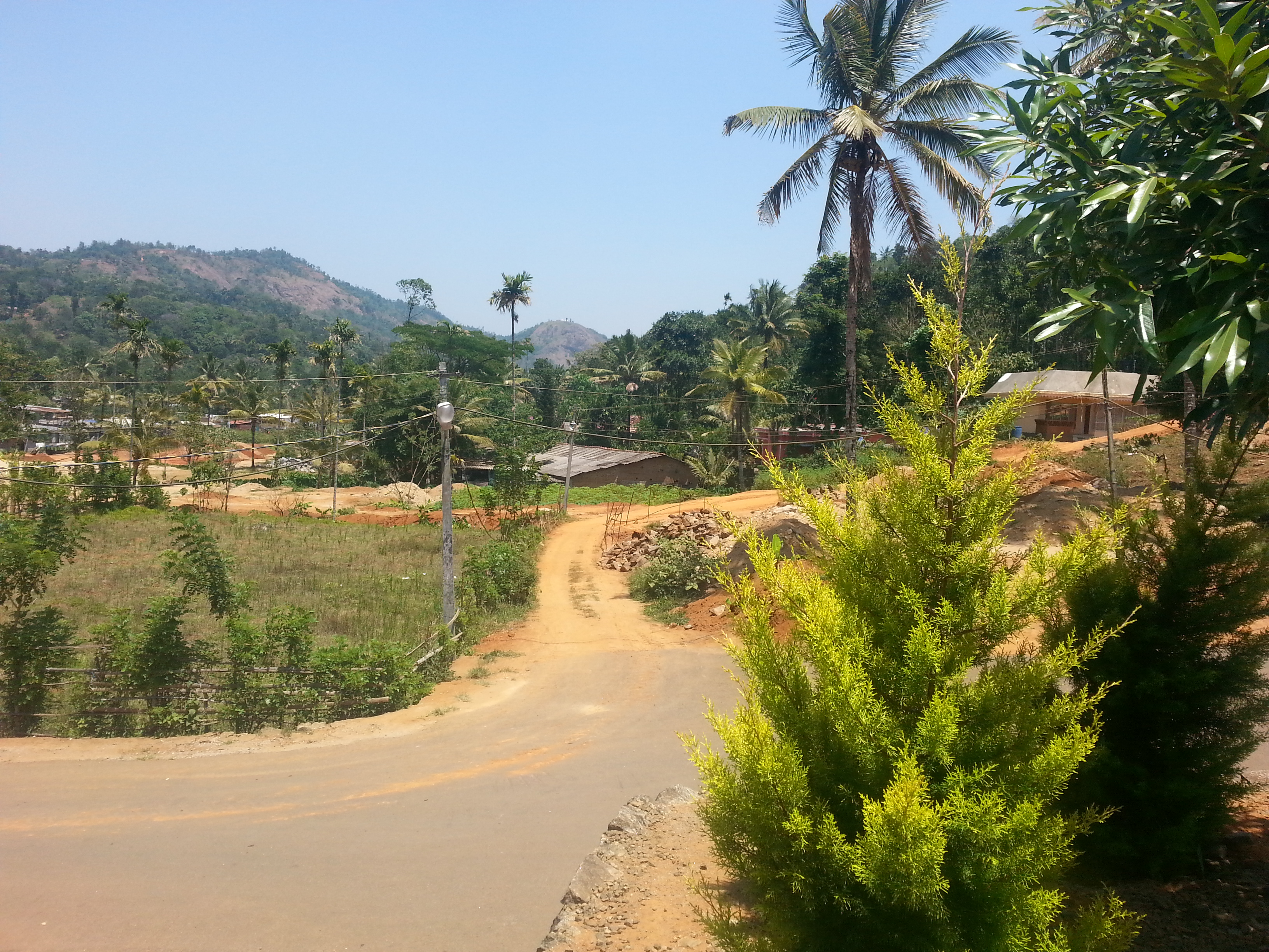 amateur shot with nokia e6